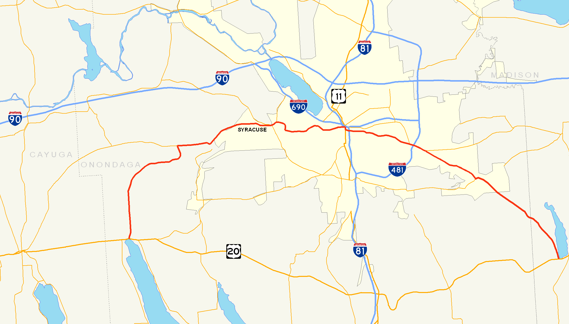 Map of New York SR 20SY